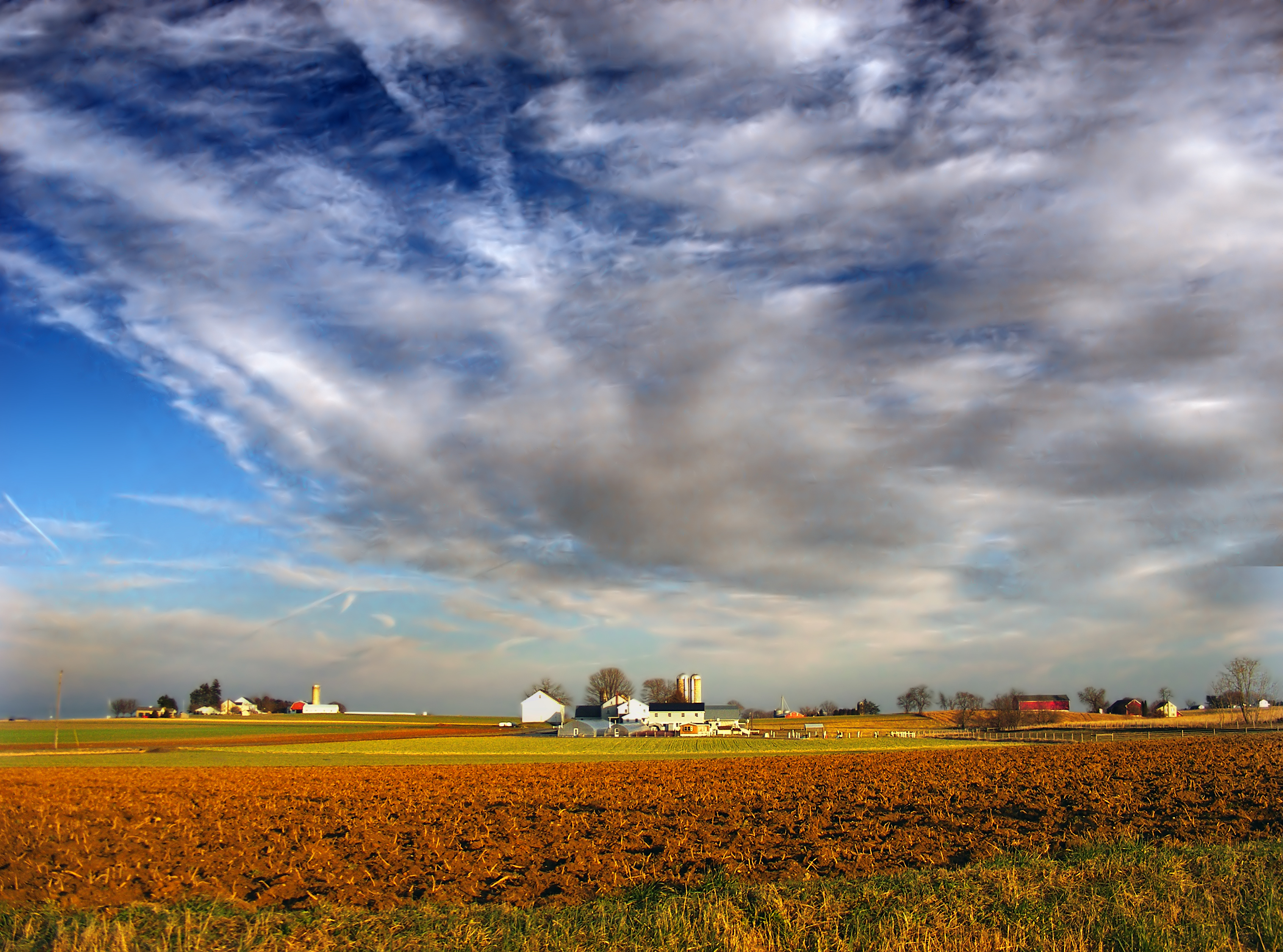 Field and sky, East Hempfield Township, Lancaster County, Pennsylvania